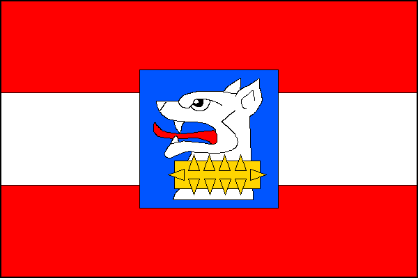 Municipal flag of Bernardov village, Kutná Hora District, Czech Republic.